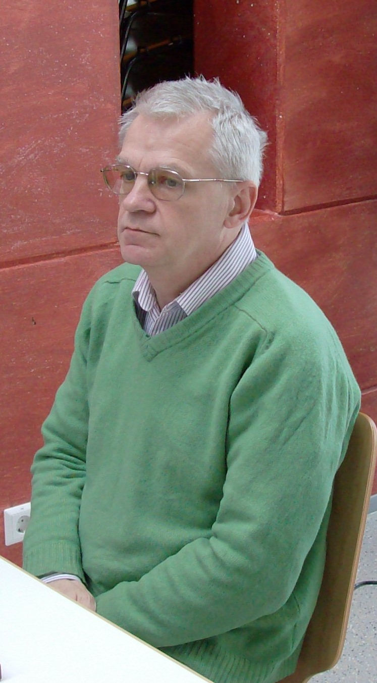 Zoltán Ribli, Hungarian chess grandmaster